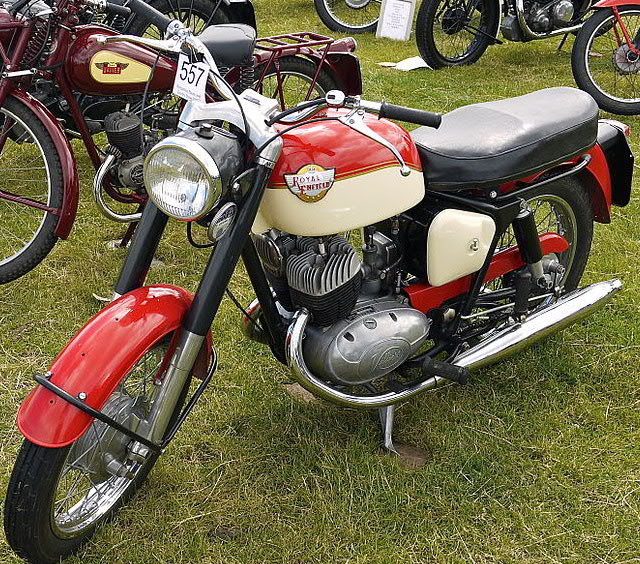 Royal Enfield Turbo Twin, photographed with Panasonic G1